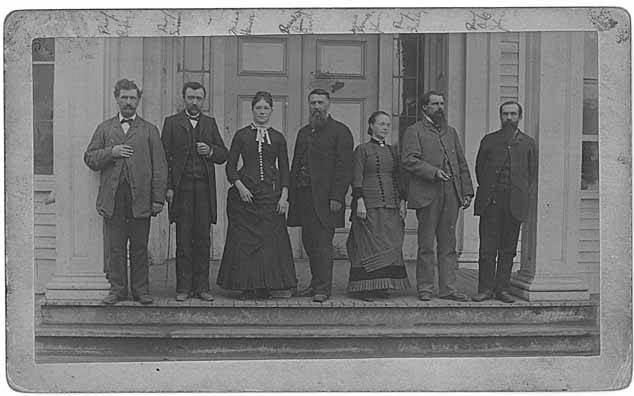 Written on mount above photograph: Prof. Ripley, Prof. [Simon?], Miss Hauser, President Powell, Miss Powell-Johnson, Prof. Bradley, Prof. O.B. Johnson . Handwritten on verso: Faculty of the Territorial University of Washington, 1883. Edmond S. Meany . Handwritten note filed with image: Faculty of University 1883. Prof. Ripley, Music (Rhetta Ripley's father, mar. Marion Frye), Chas. Anderson, Miss Lois Hauser, Prof. Powell, Prof. Powell's daughter, ?, Prof. O.B. Johnson, zoology. (Mabel Chilberg, from MSS 22 May 61 NW, sister of John E. Chilberg.) Peiser 184 Appears to be the same location as File:Washington Territory legislators, probably in Seattle, 1883 (PEISER 90).jpeg